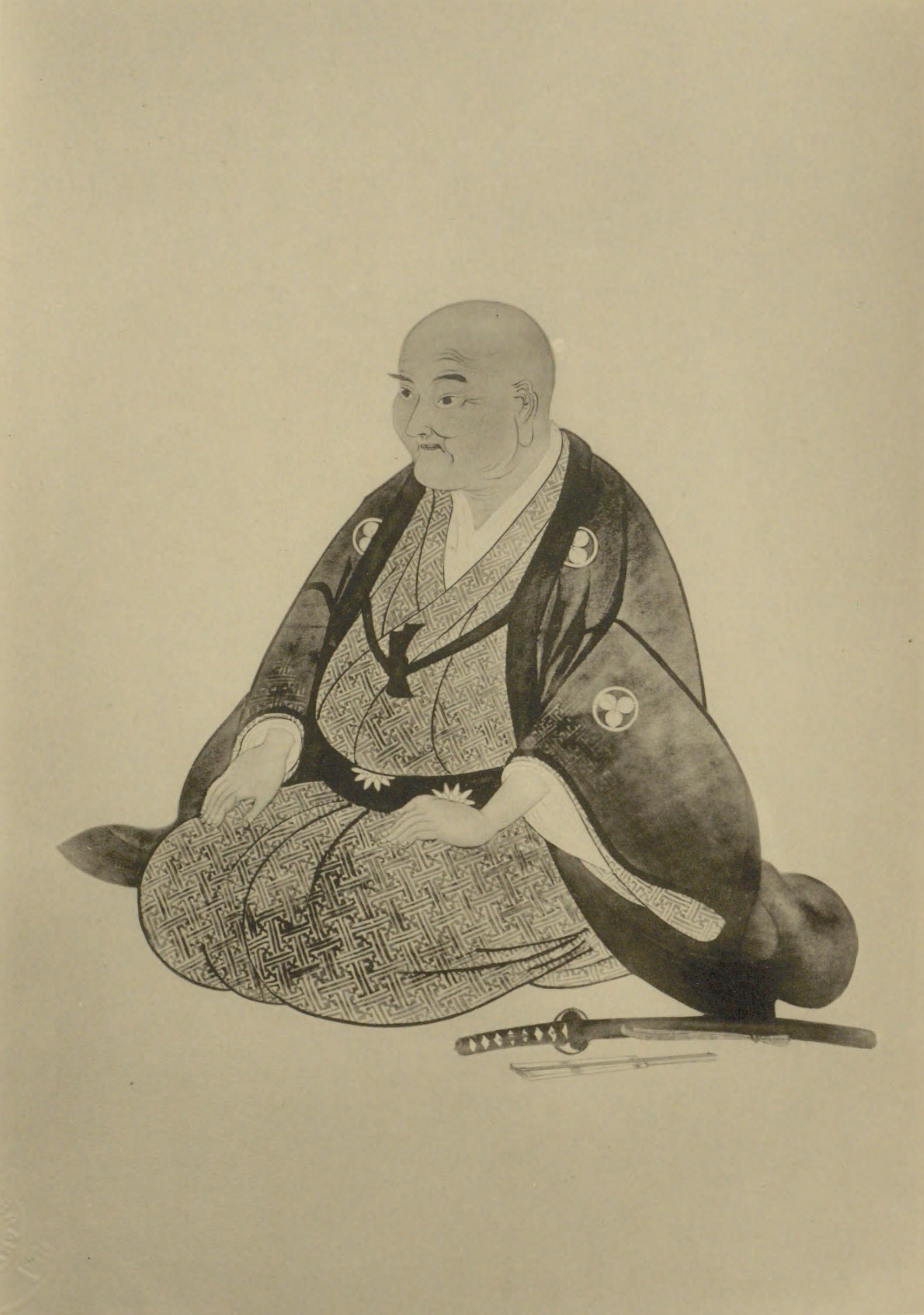 Portrait of Matsuoka Joan